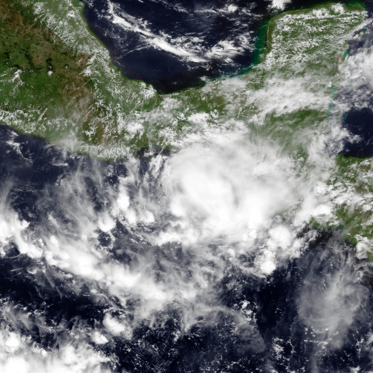 Image of system 01E on June 4, 1997